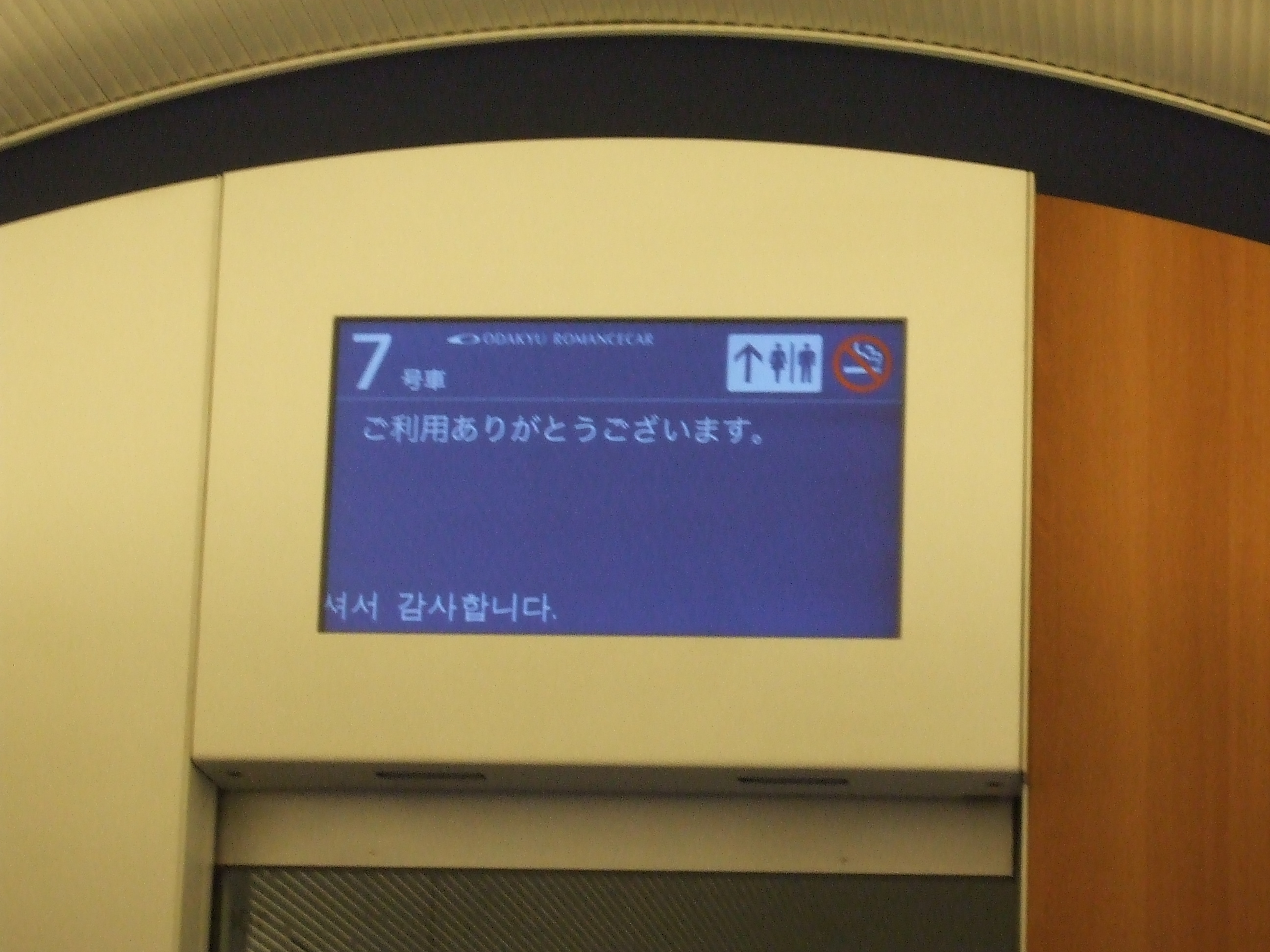 On-board LCD with Korean language on 50000 series EMU a.k.a. VSE for Express Romance Car of Odakyu Electric Railway, Japan.